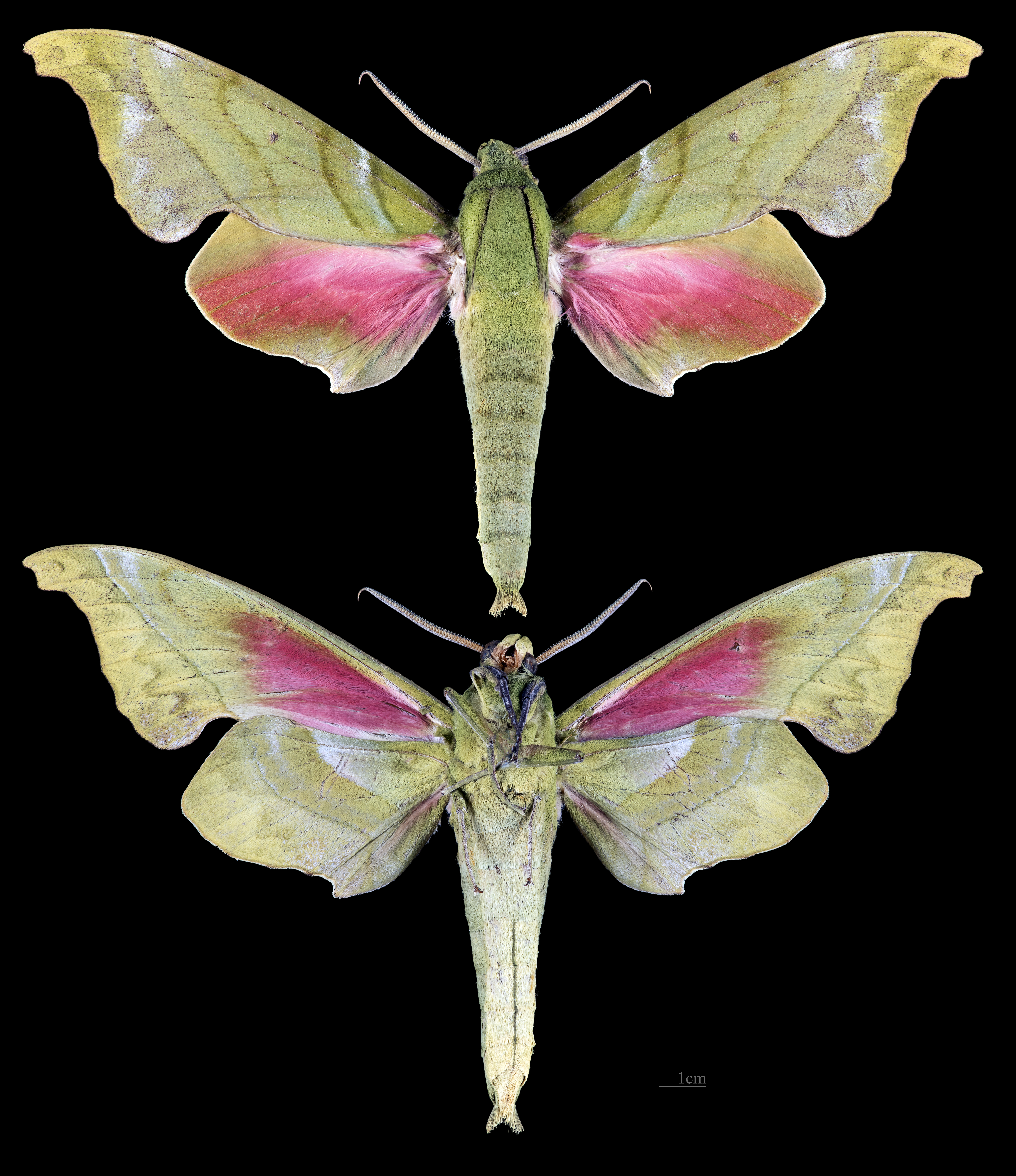 Rhodoprasina callantha - Two views of same specimen Collection of the Mathematician Laurent Schwartz